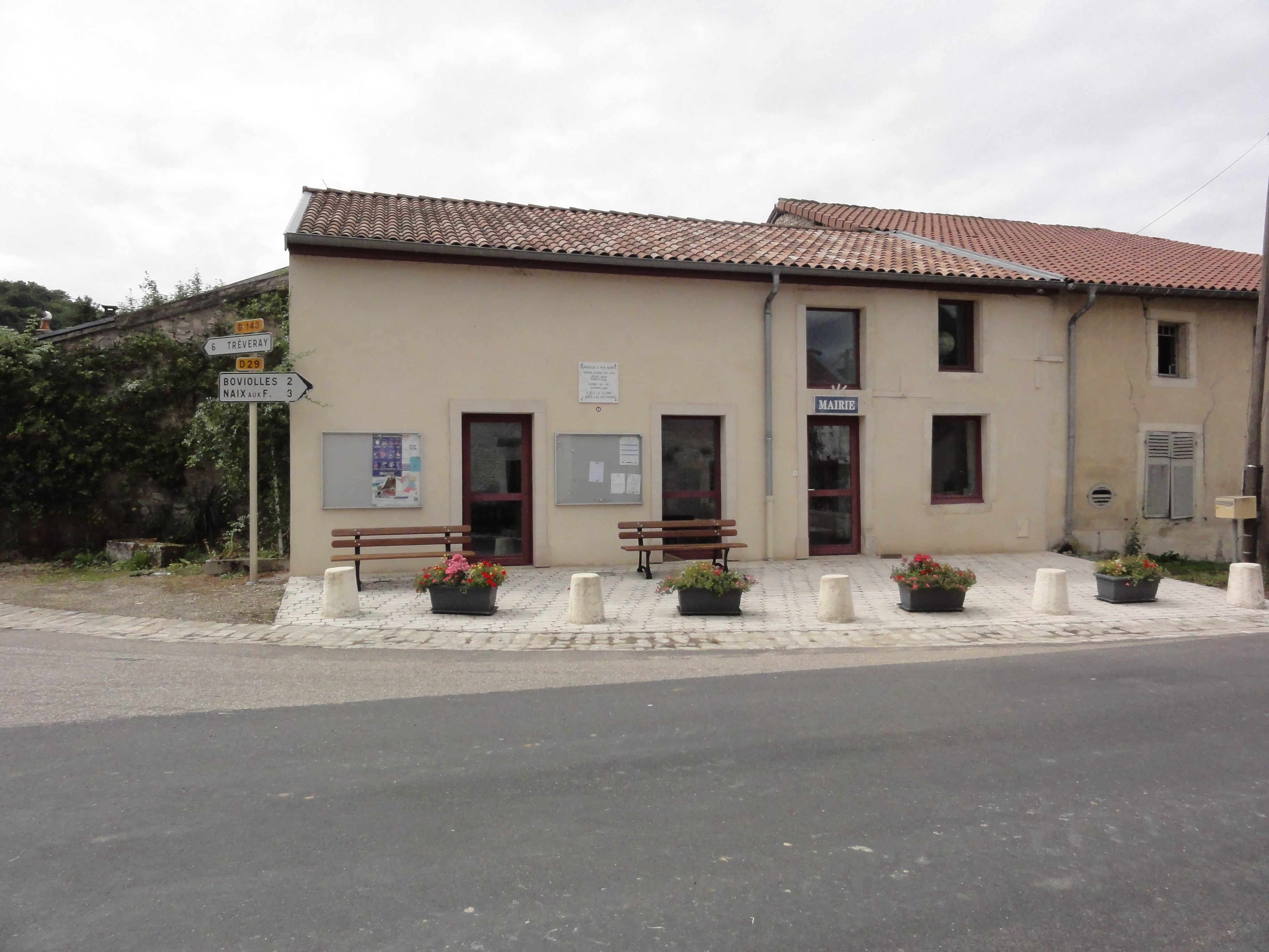 Marson-sur-Barboure (Meuse) mairie